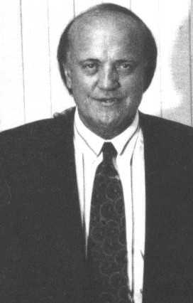 Journalist Peter Arnett pictured at Manchete Press Building, in Rio de Janeiro, 1994, during a visit to promote his new book, ‘Live from the Battlefield: from Vietnam to Baghdad, 35 Years in the World's War Zones’. In